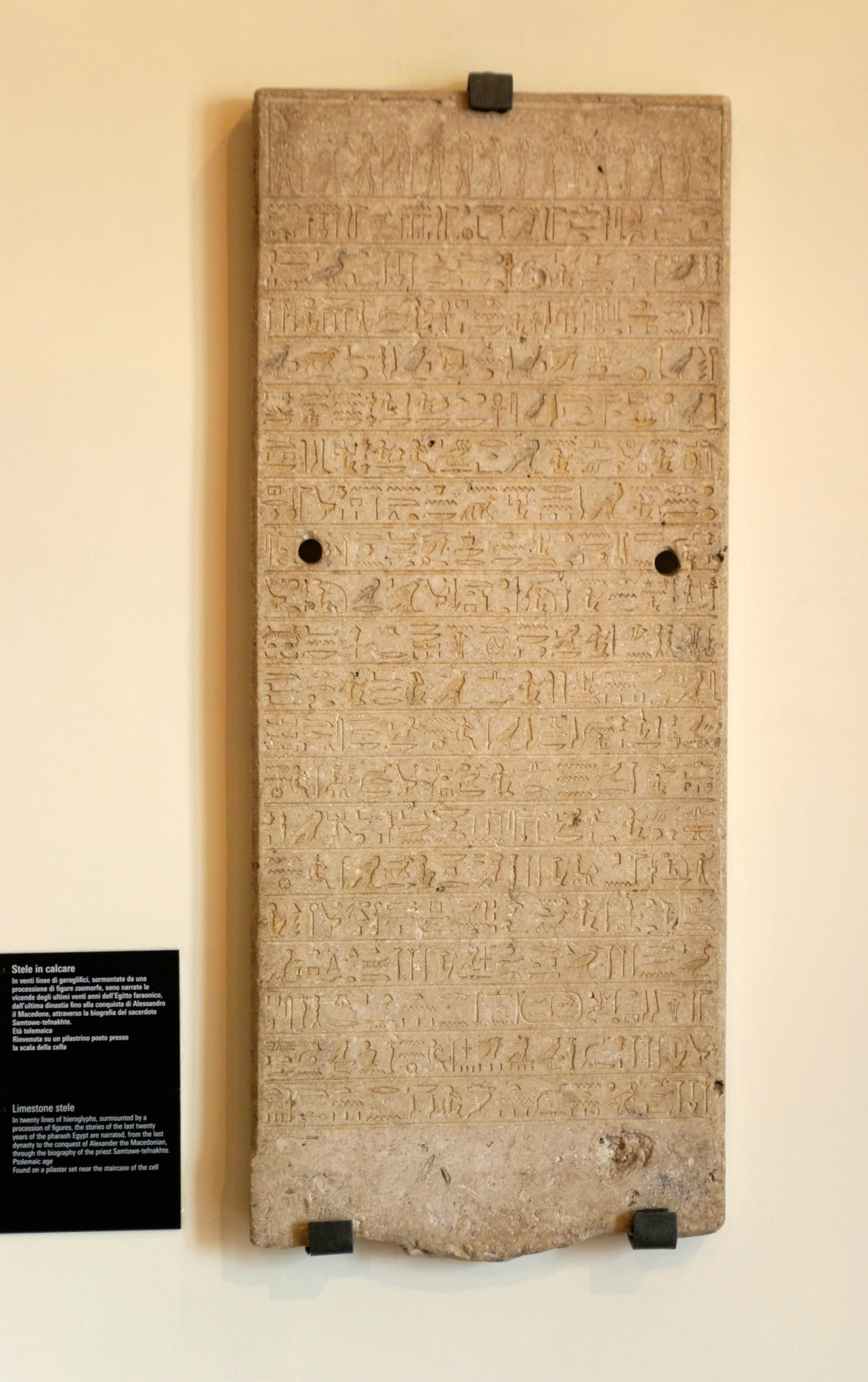 Naples, National Archaeological Museum, Limestone stele